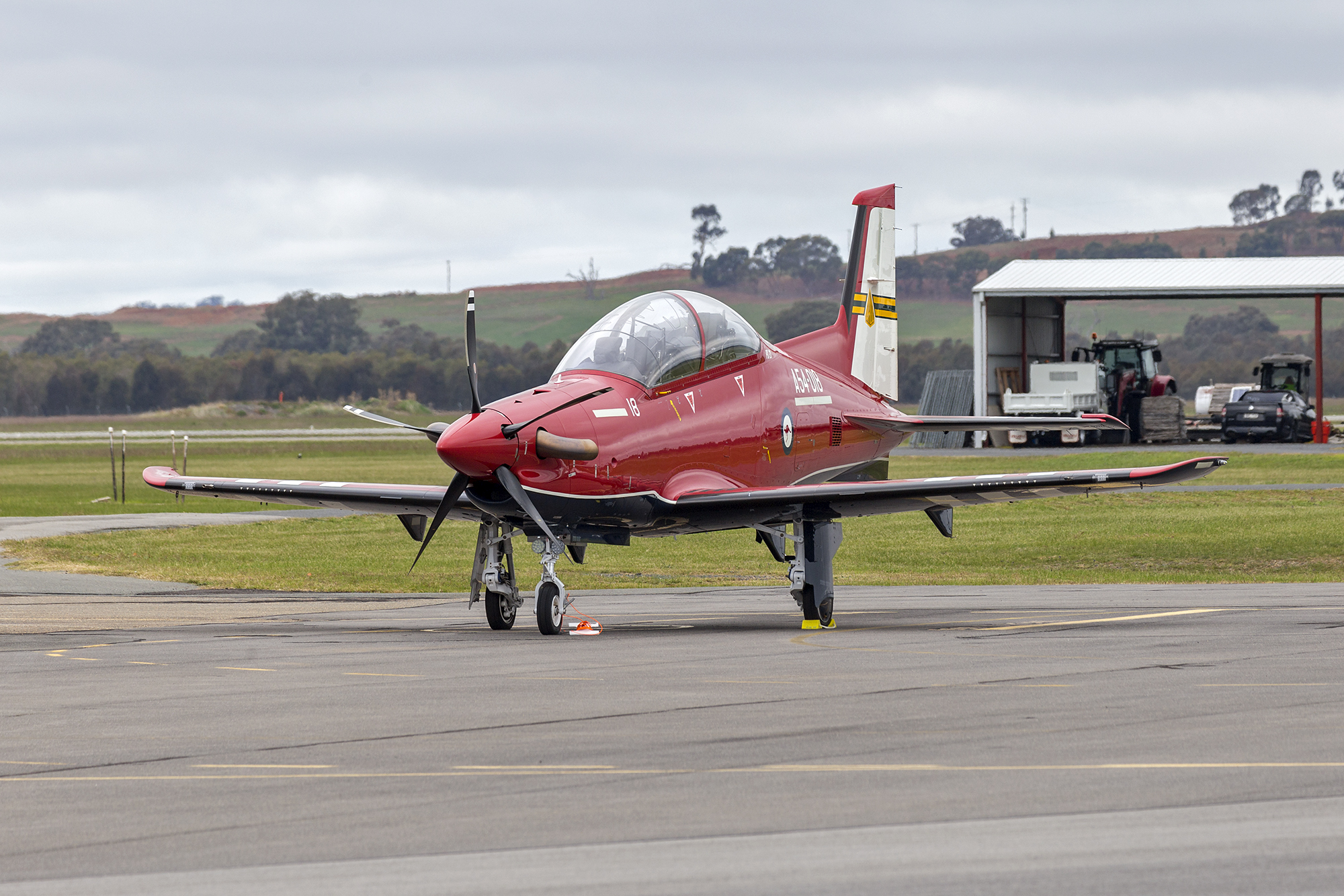 Royal Australian Air Force (A54-018) Pilatus PC-21 at Wagga Wagga Airport.